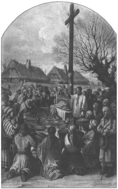 Food blessing ceremony on Holy Saturday, XIX century.